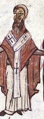 A medieval depiction of Stephen I of Constantinople.